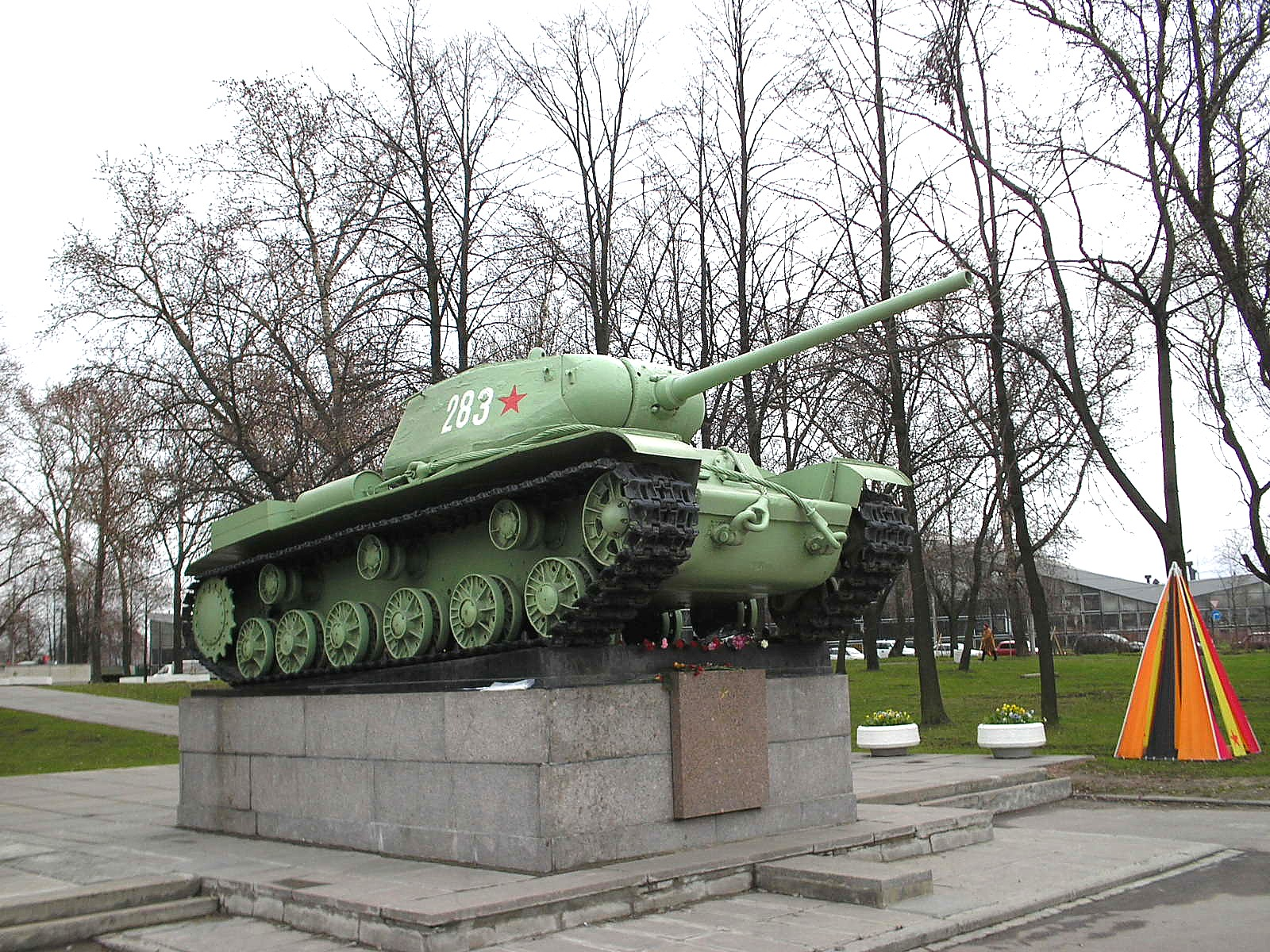 Monument featuring a KV-85 tank.